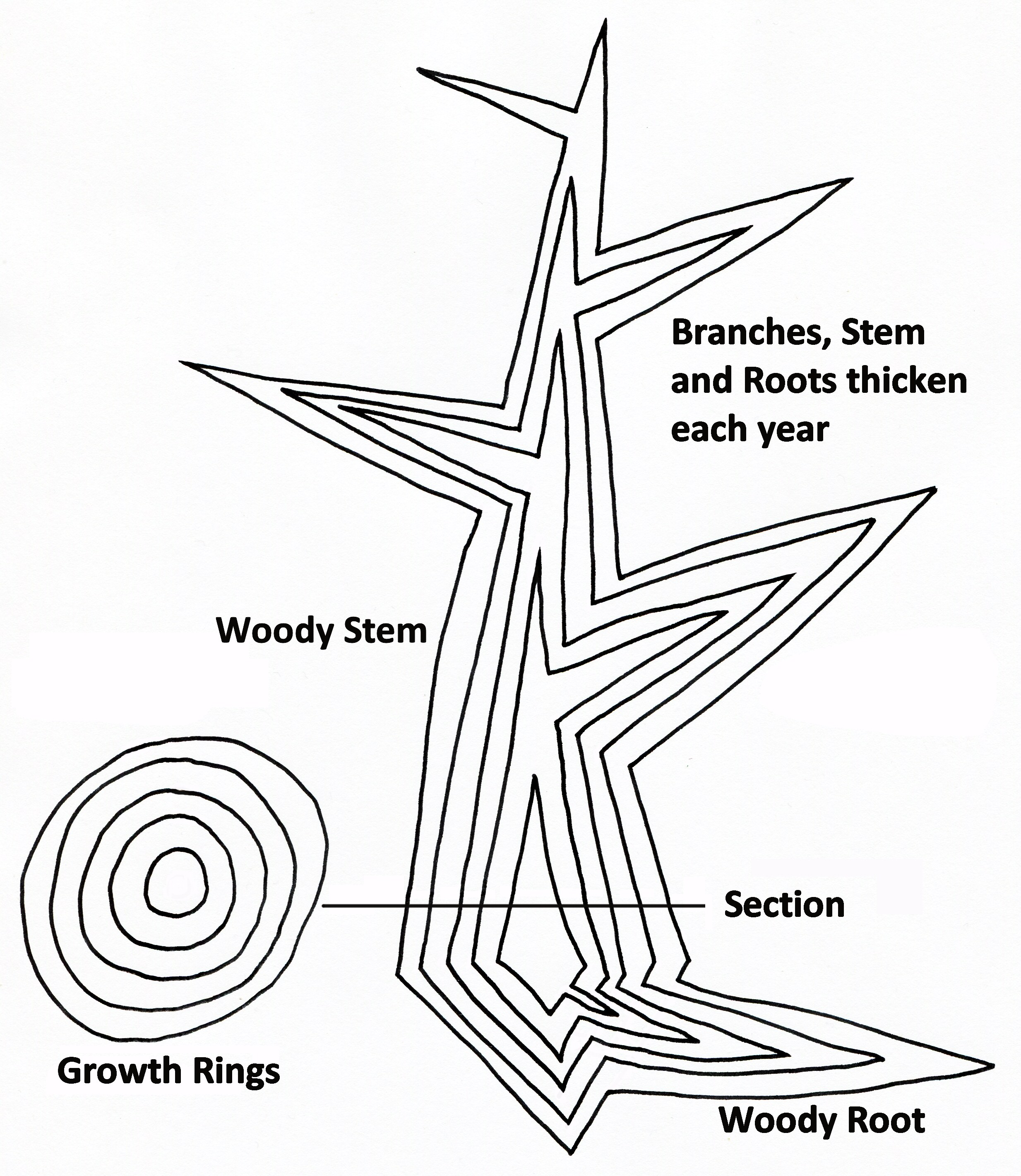 Diagram of secondary growth in a tree showing idealised vertical and horizontal sections